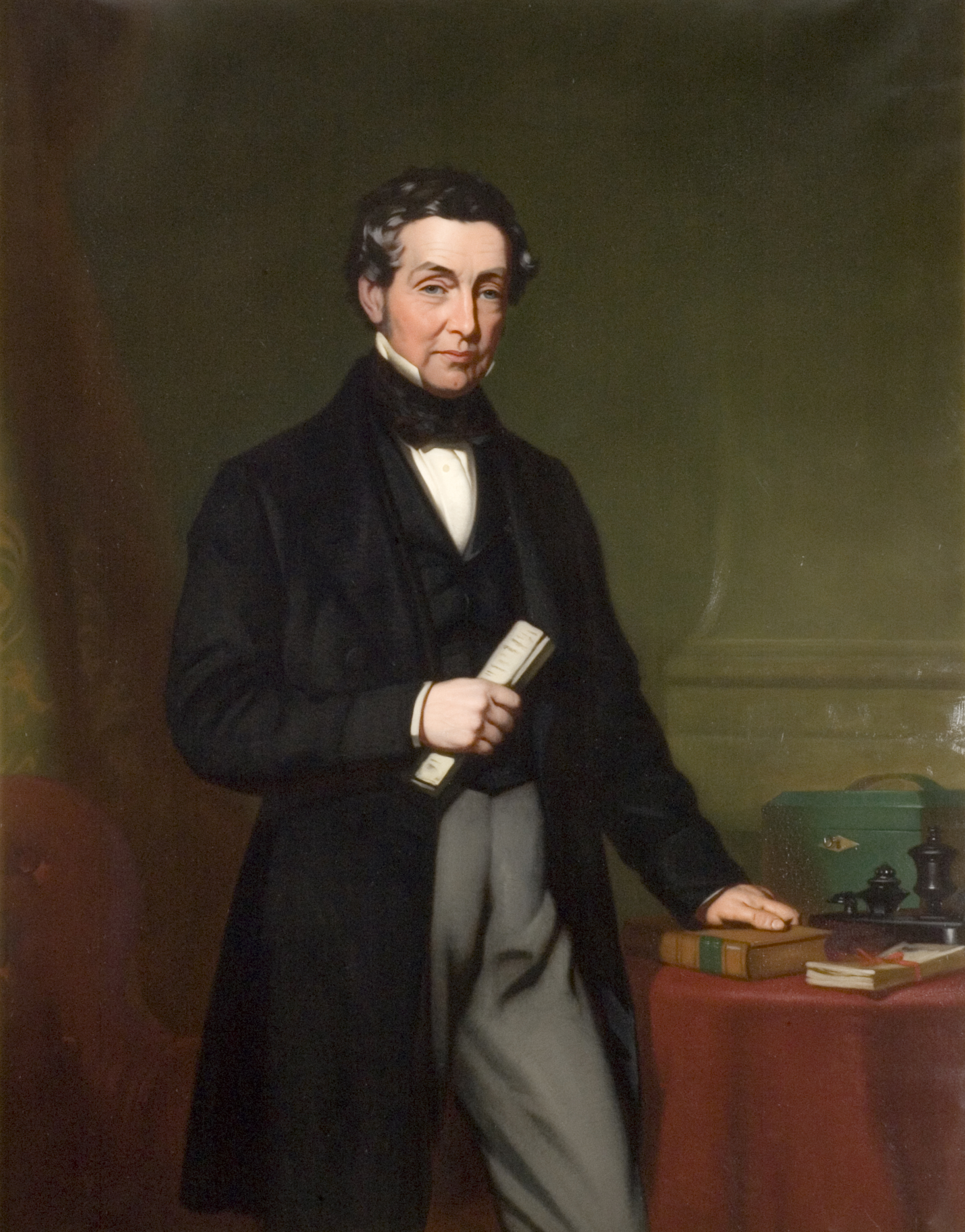 A cropped version of a portrait of Charles Gray Round (1797 - 1867). The painting was presented by James Round MP to decorate Colchester Town Hall which opened in 1902.